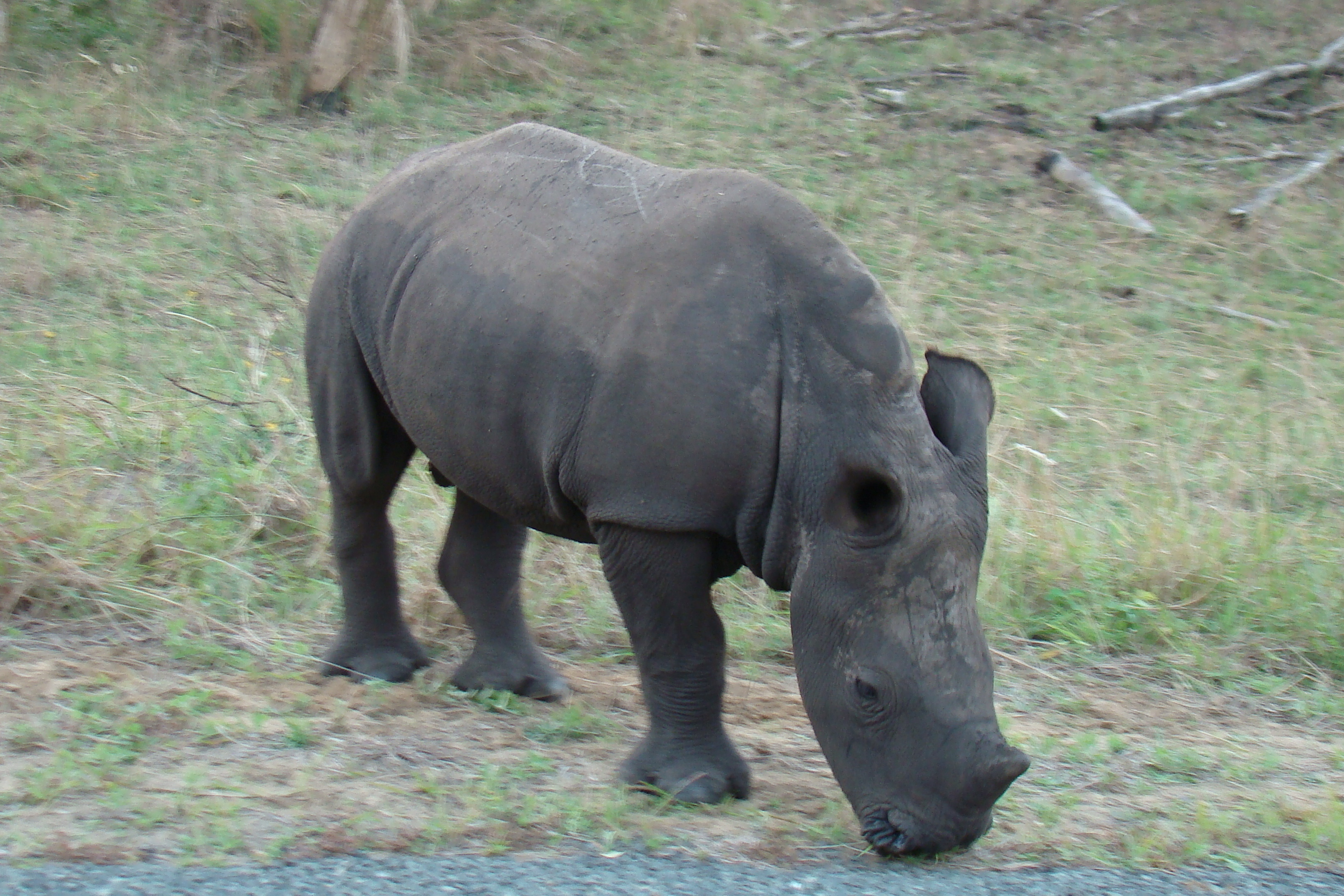 Young rhinoceros, photographed in Sabi Sand Private Game Reserve, South Africa.